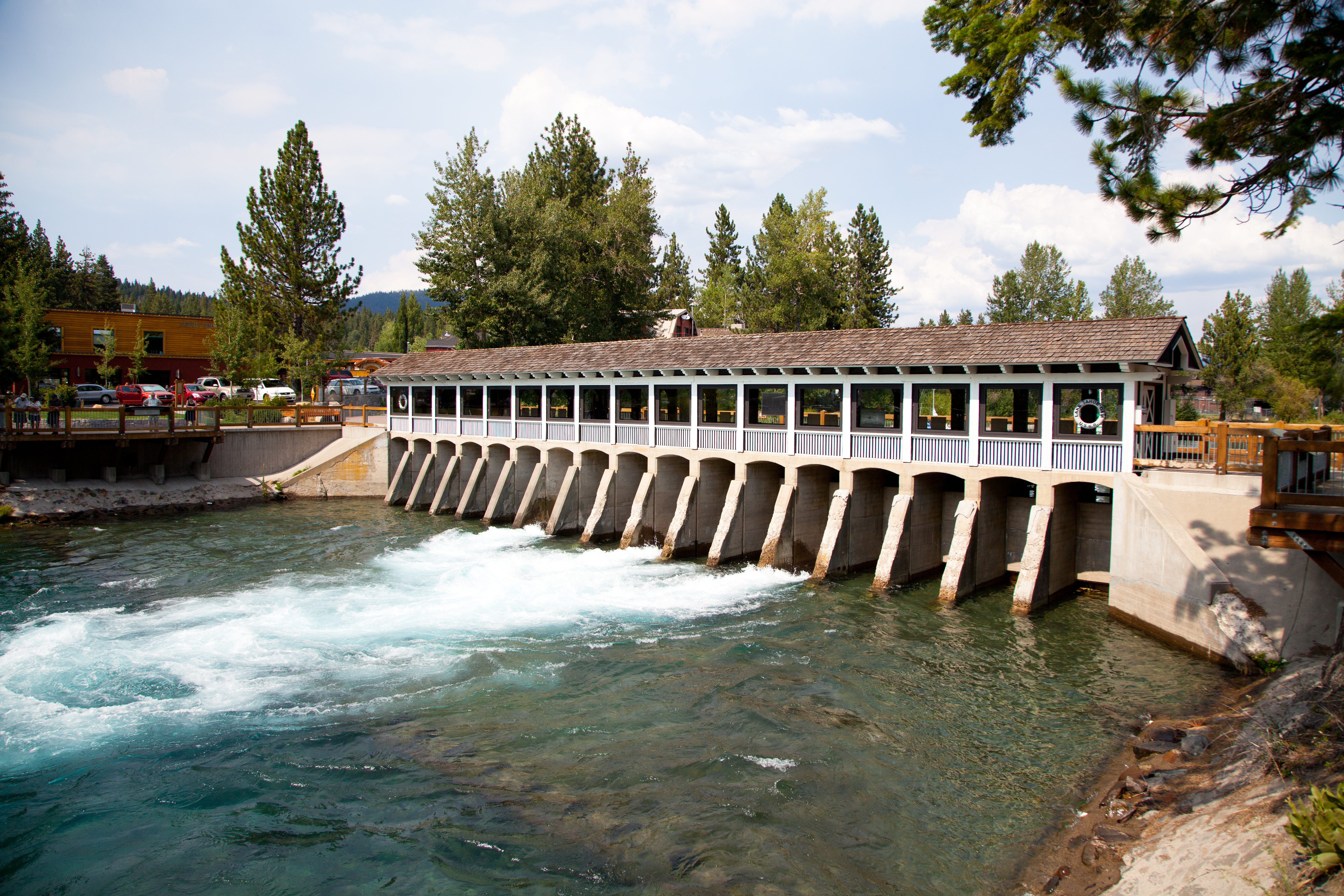 Lake Tahoe Dam